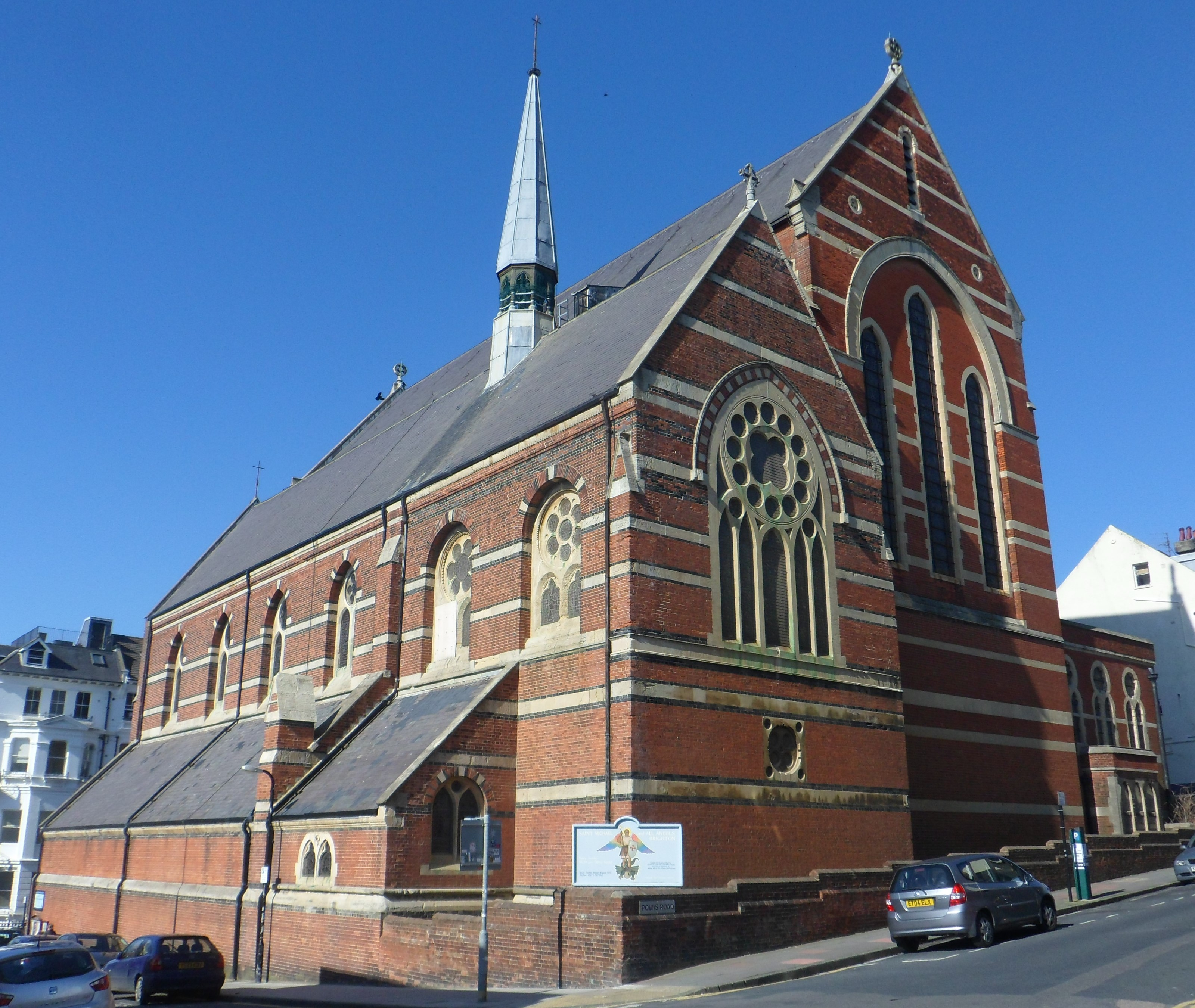 St Michael and All Angel's Church, Victoria Road, Montpelier, City of Brighton and Hove, England.